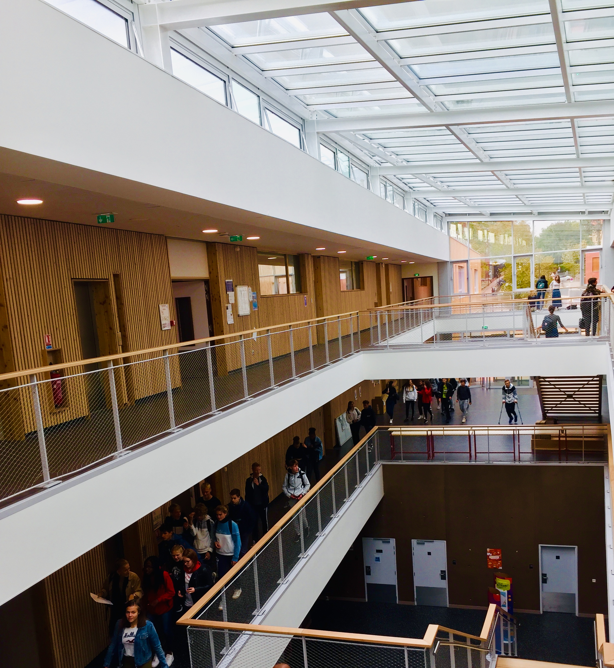 interior view